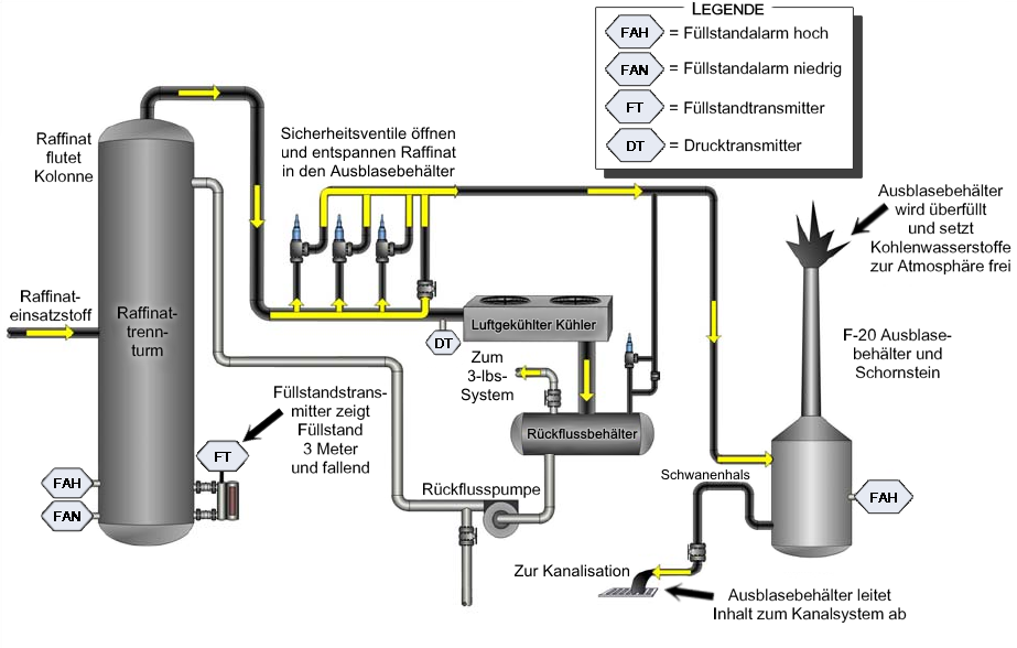 March 2005 incident in the BP Texas City refinery. Diagram shows the effects of the raffinate splitter tower overfilling, with subsequent release of flammable hydrocarbons into the environment through the blowback stack.